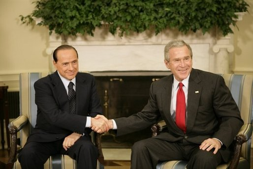 President George W. Bush shakes hands with Italian Prime Minister Silvio Berlusconi, during his visit to the Oval Office at the White House, Monday, Oct. 31, 2005 in Washington.